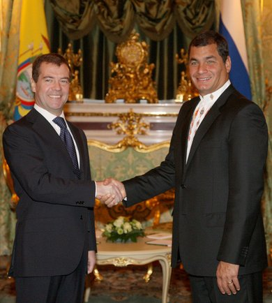 THE KREMLIN, MOSCOW. With President of Ecuador Rafael Correa.